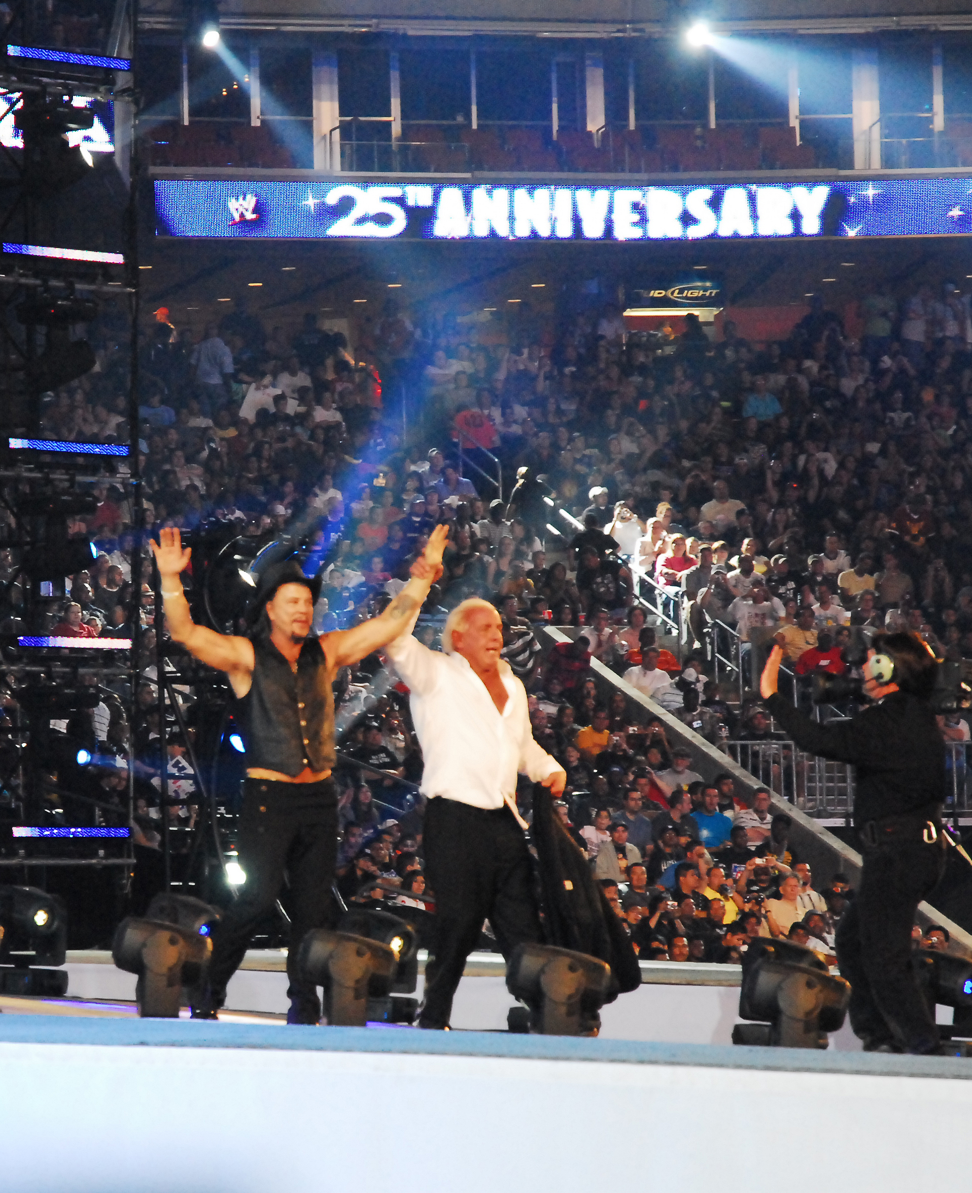 Mickey Rourke ascending the ramp with Rick Flair following his impromptu match with Chris Jericho.